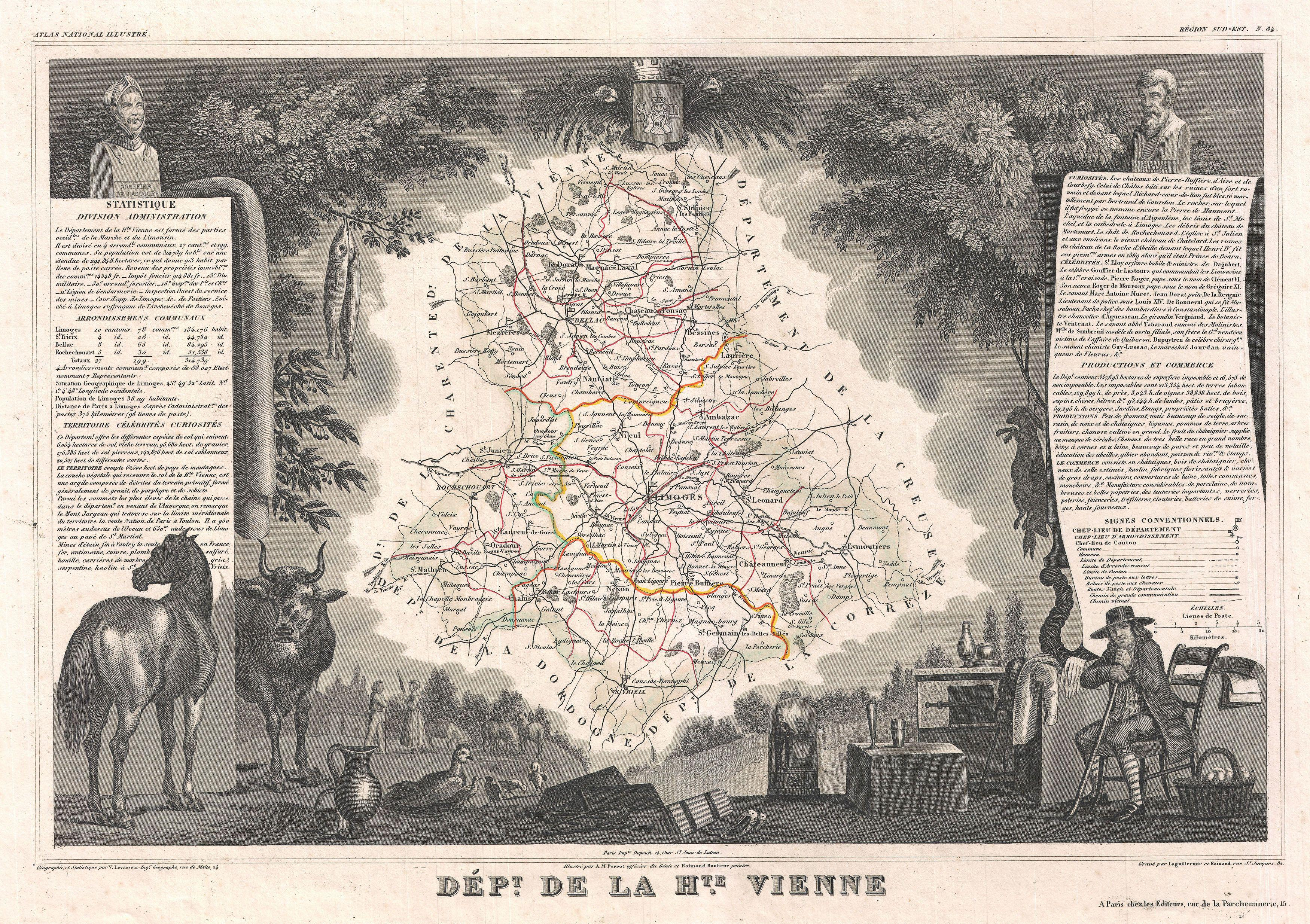 This is a fascinating 1852 map of the French department of Haute-Vienne, France. Haute-Vienne is home to the commune of Limoge, which makes oak barrels used in the production of Cognac. This area is also quite famous for its porcelain (Limoge Porcelain) which they have makin since the 1700’s. The map proper is surrounded by elaborate decorative engravings designed to illustrate both the natural beauty and trade richness of the land. There is a short textual history of the regions depicted on both the left and right sides of the map. Published by V. Levasseur in the 1852 edition of his Atlas National de la France Illustree.